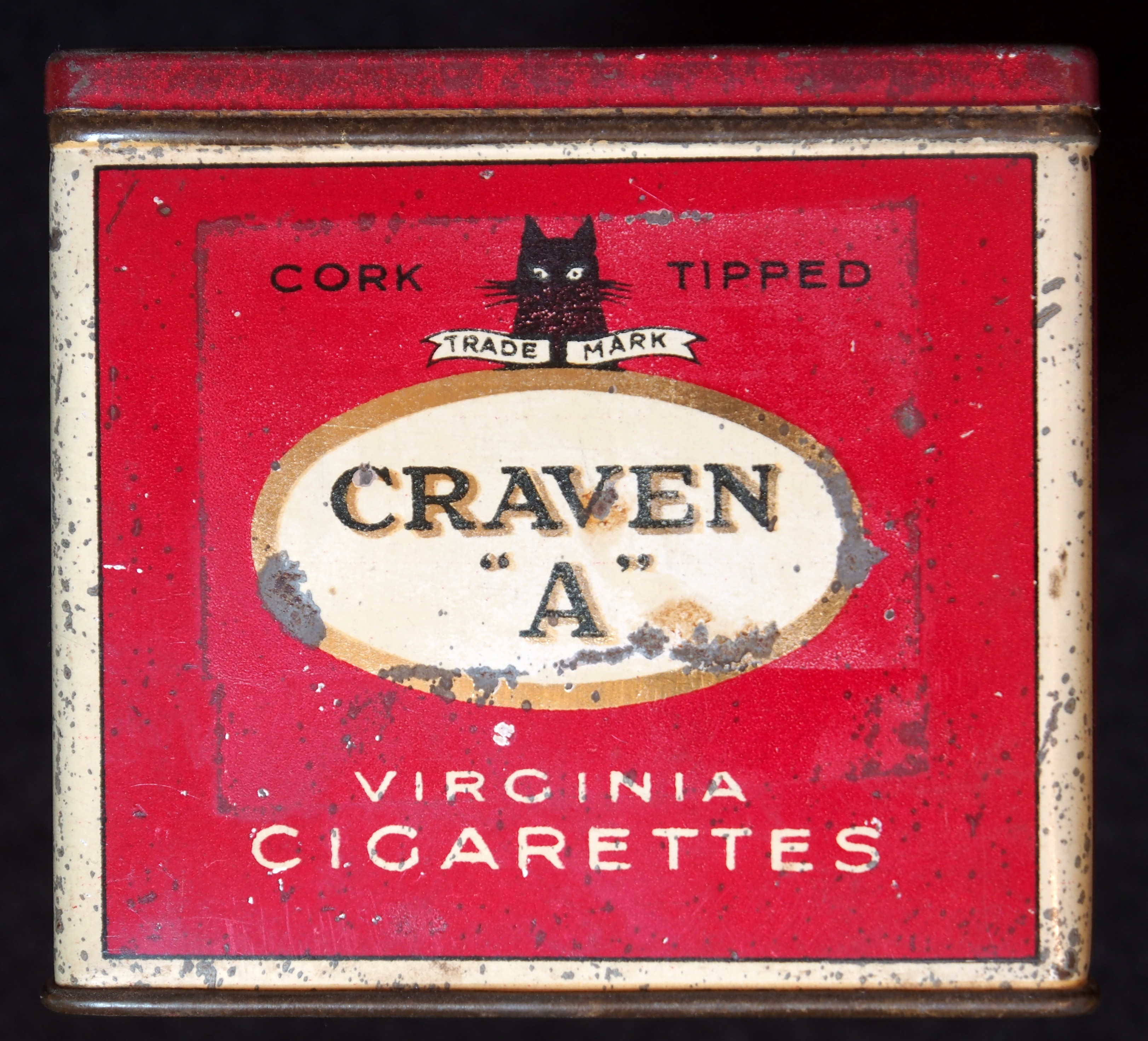 Very old product that is not produced and not sold any more. Note that some tins may look the same, but when looked for carefully there are some slight differences! For more info see tincollectors.nl or